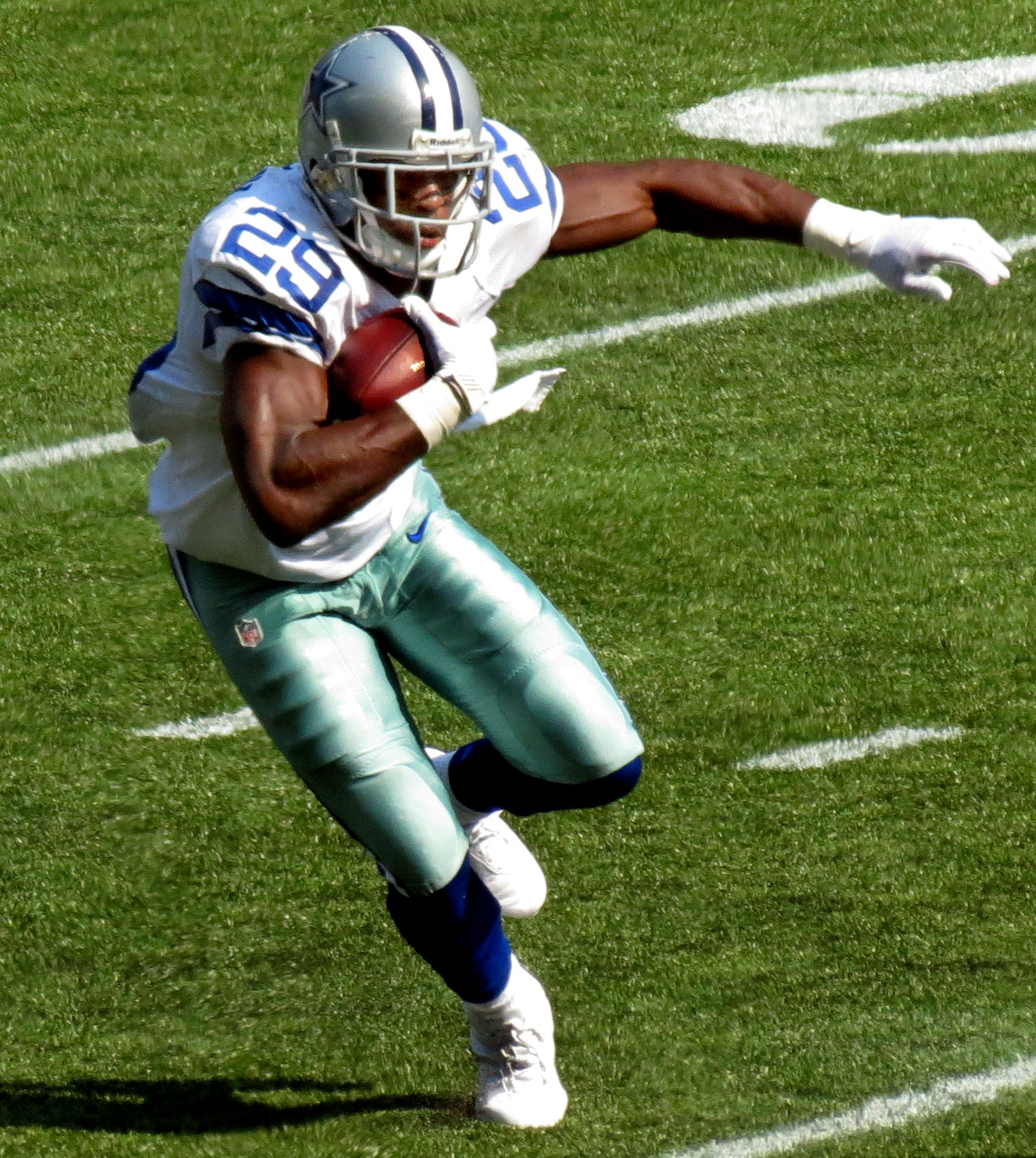 DeMarco Murray running against the Seattle Seahawks